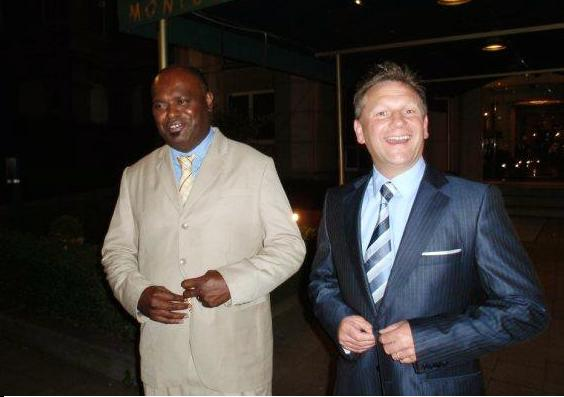 Hon. Bakoa Kaltongga Minister of Foreign Affairs (left) with Diplomat and Trade Commissioner Colin Evans (right)